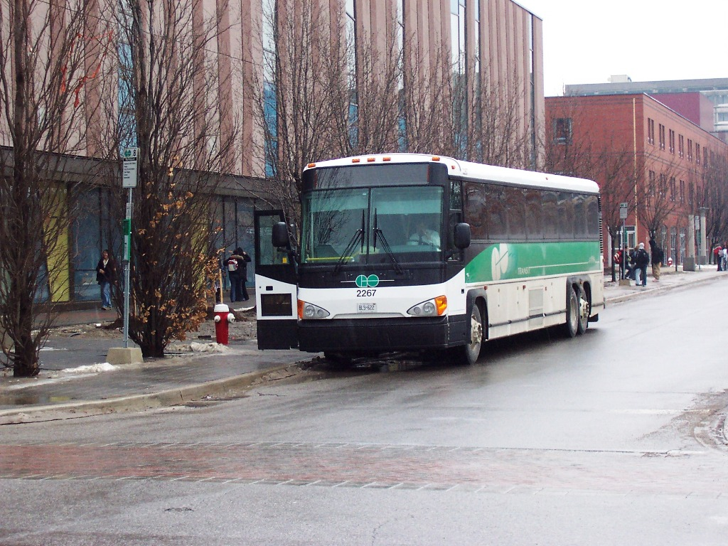 GO Transit MCI D4500CT #2267 at York University.